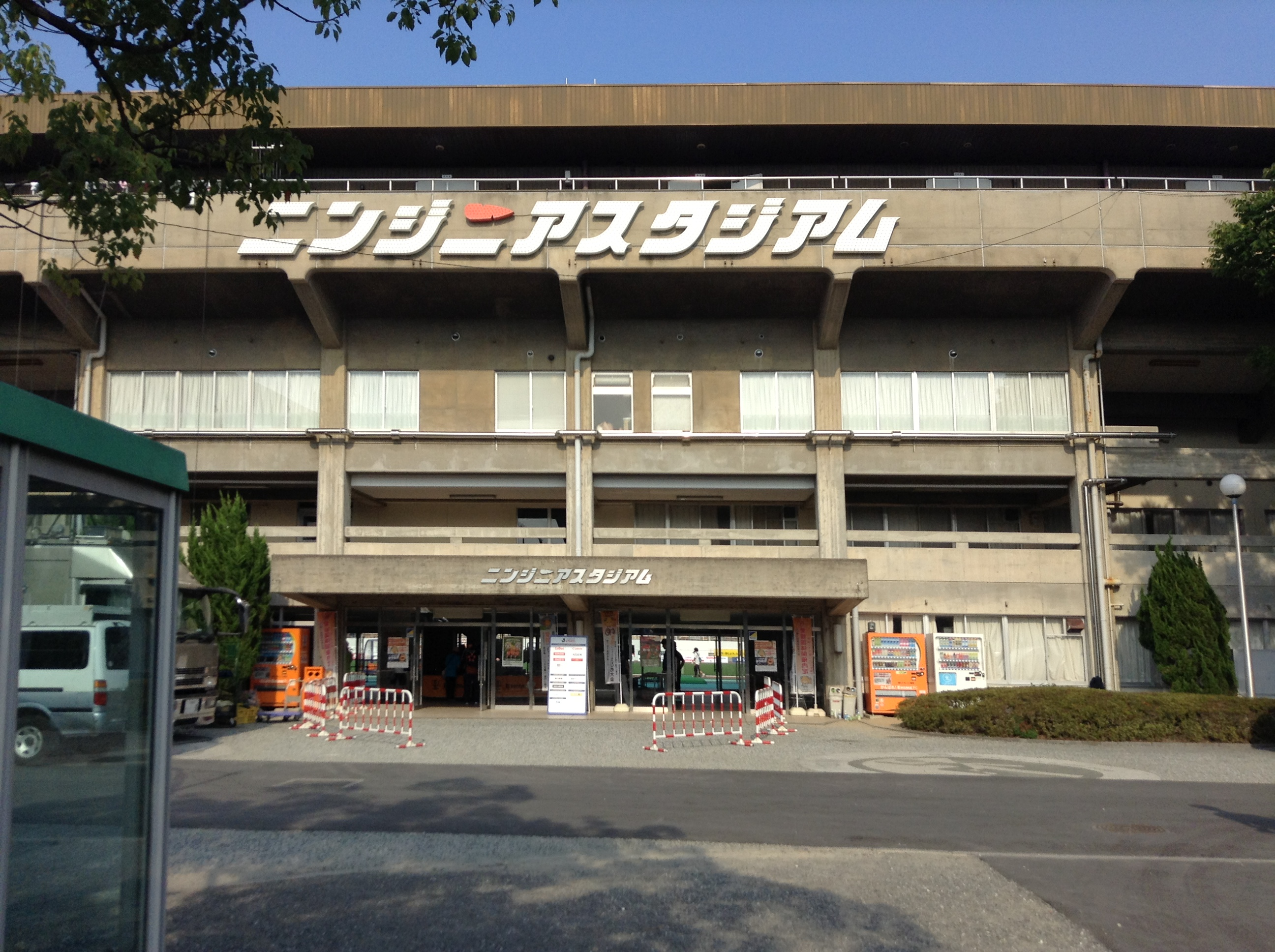 The main gate of Ehime Prefectural Sports Park Athletic Stadium (Ningineer Stadium)